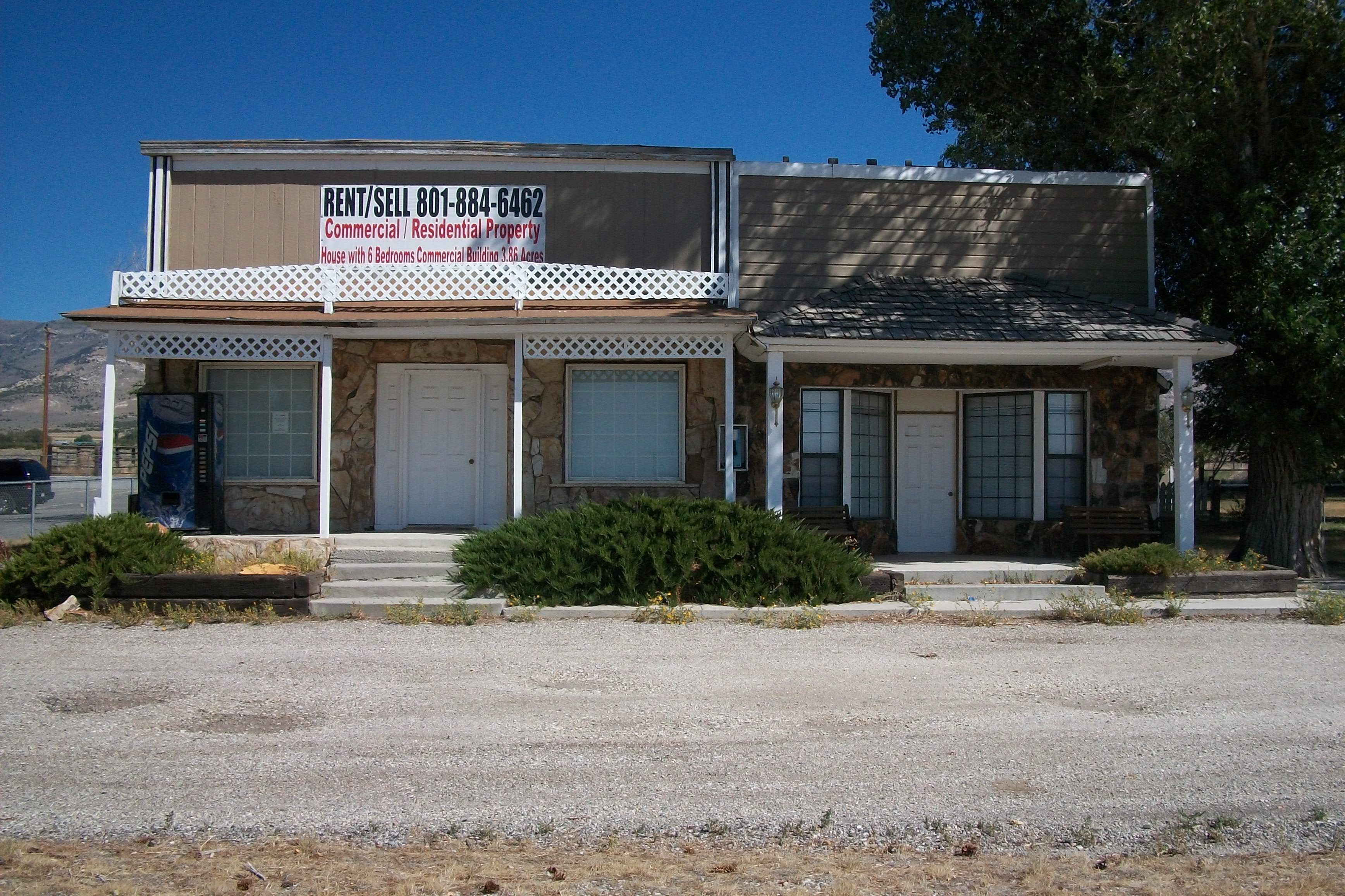 A couple buildings in Park Valley, Utah